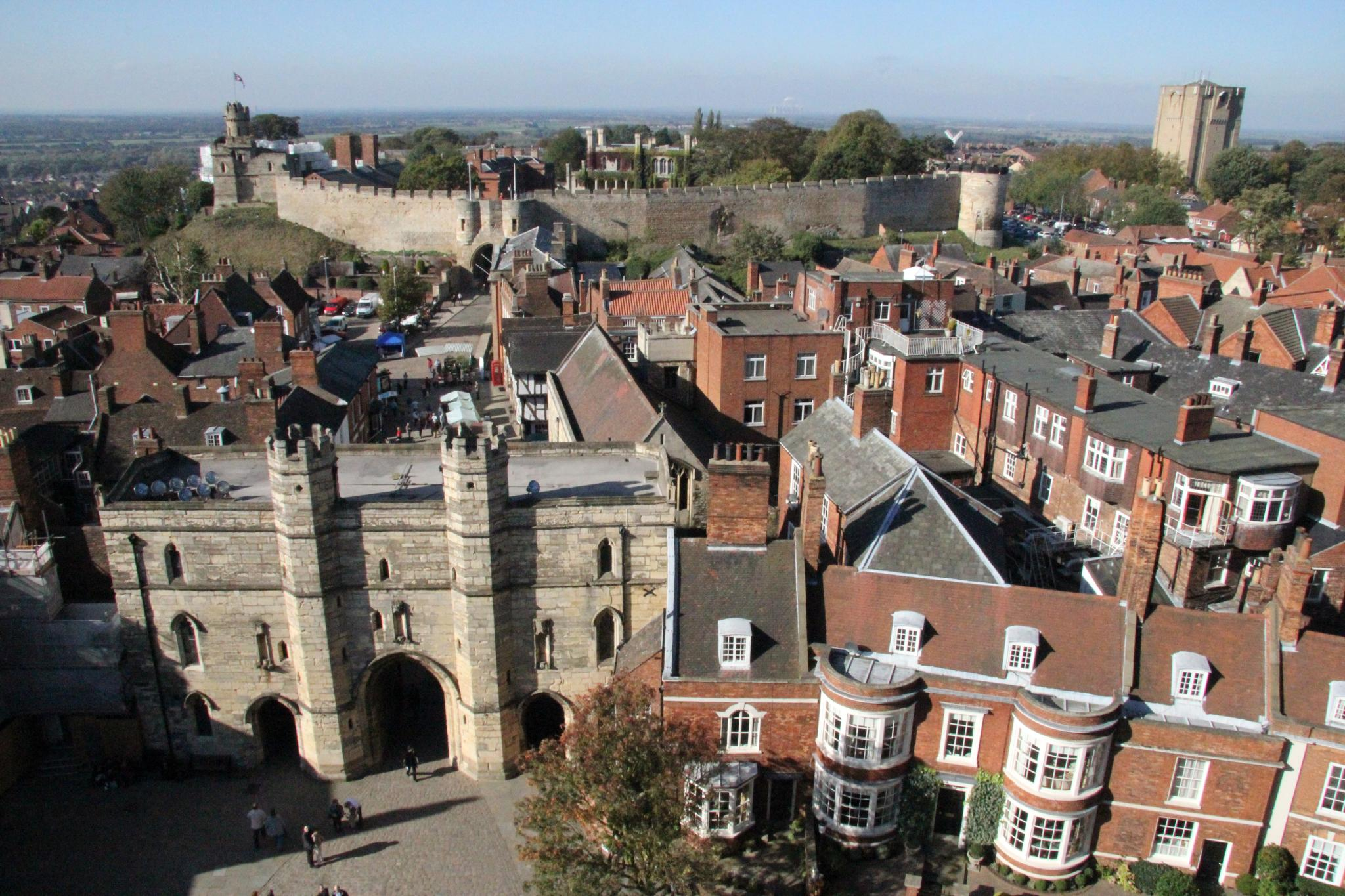 The view west from Lincoln Cathedral. The camera is pointing at the medieval castle. On the left hand side of the castle the 'Lucy Tower' on top of one of the castle's two keeps can be seen. To the right of that the the east gatehouse, and two towers can be seen further to the right.